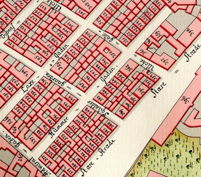 Hummergade etc seen on Gedde's district map of Østre Kvarter in Copenhagen, Denmark